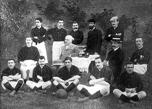 Italian Football Champion 1901 (AC Milan or at that time CFC Milan) From Left to Right: Back: Kurt Lies, Catullo Gadda, Hoberlin Hoode (GK), Nathan (vice-president), Hans Sutter Middle: Herbert Kilpin, Alfred Edwards (president with Fawcus-cup), Camperio (director), Daniele Angeloni Front: Agostino Recalcati, Samuel Richard Davies, Ettore Negretti, David Allison, Guerriero Colombo